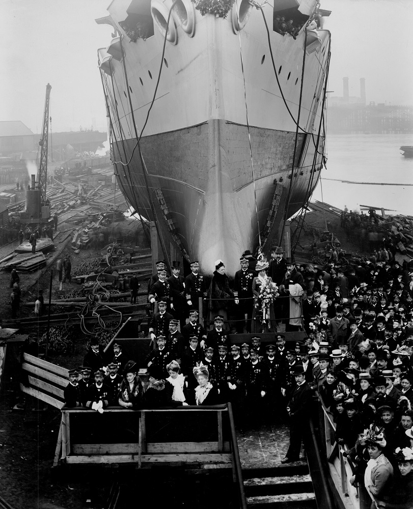 View of the cruiser Iwate, built for the Imperial Japanese Navy, ready for launch at the Armstrong Whitworth Elswick Shipyard, Newcastle upon Tyne